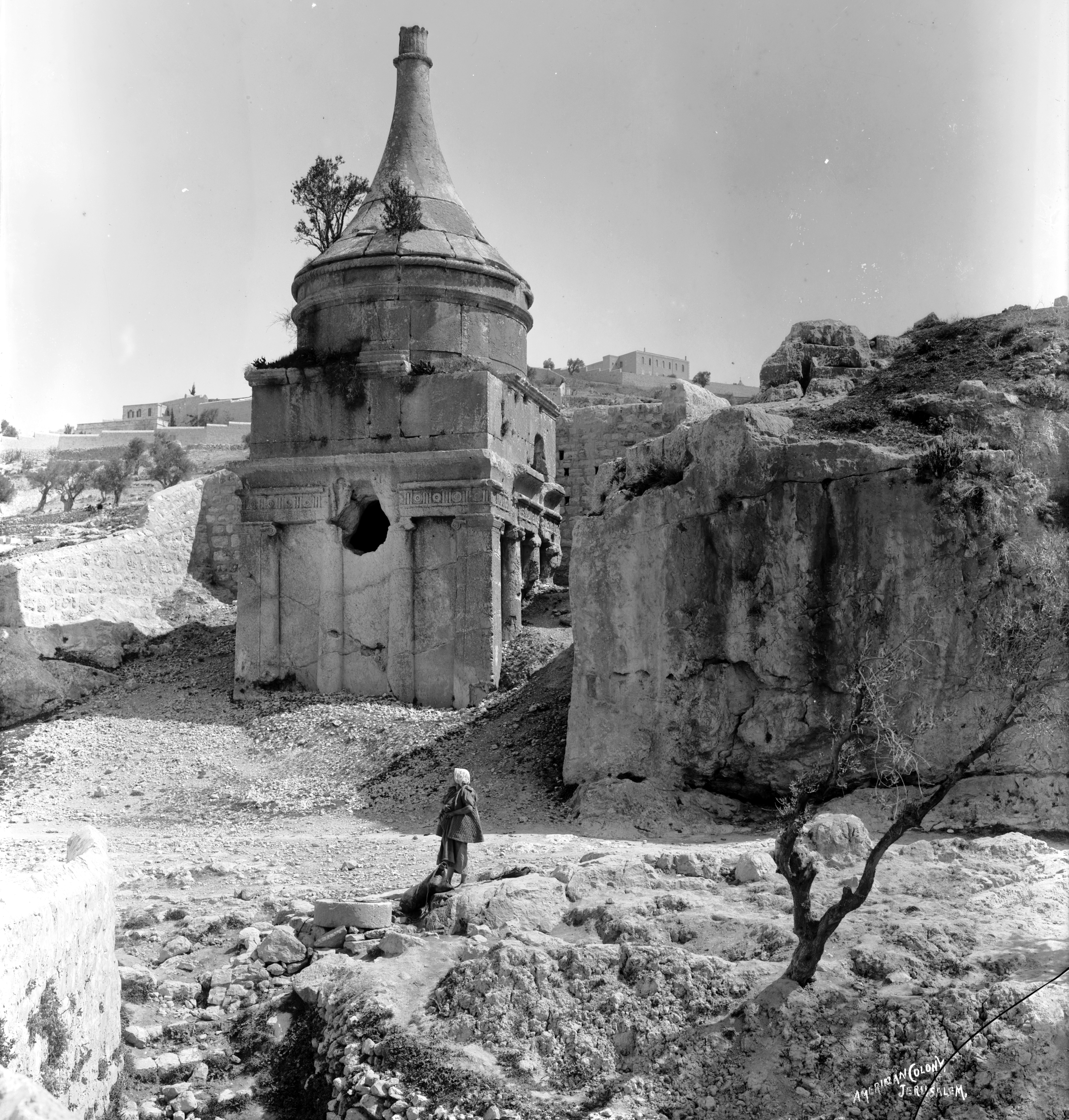 Absalom's Pillar, Avsalom's Pillar, Yad avshalom monument in Jerusalem.